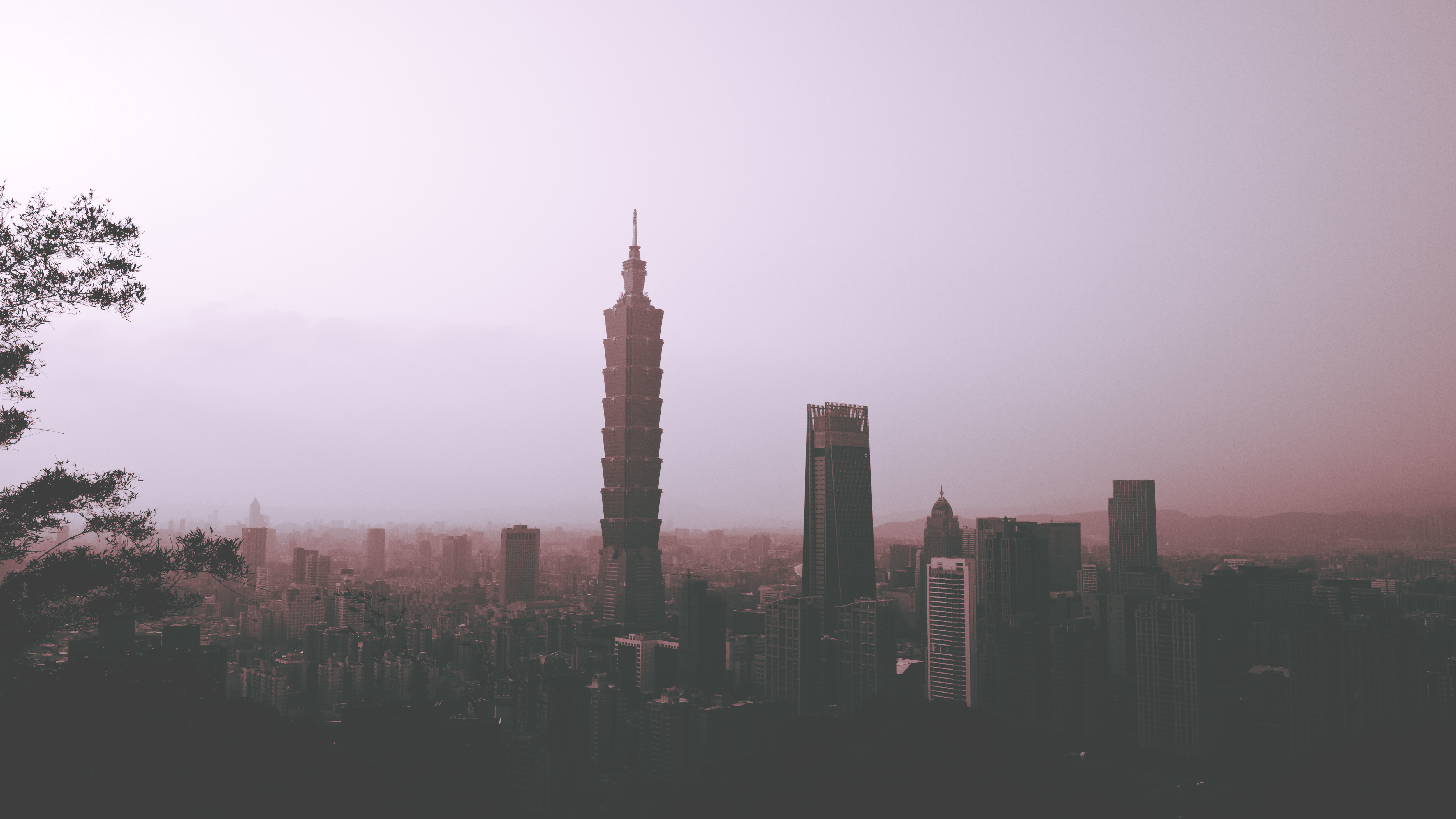 Foggy sunset skyline of Taipei, Taiwan taken in 2019